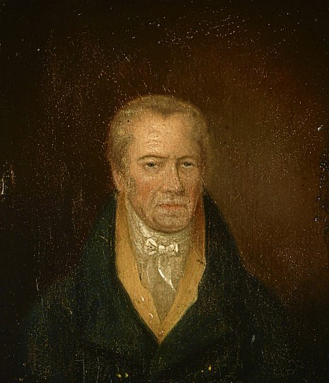 Portrait of James 'Purlie' Wilson, (1760 - 1820); a Scottish Radical Reformer.